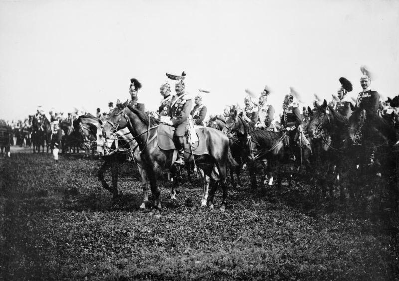 The Imperial German Army 1890 - 1913 German princes and officers of the General Staff await the start of the Kaiser Parade during the manoeuvres of 1898. Count von Schlieffen, Chief of General Staff, is fifth from right.